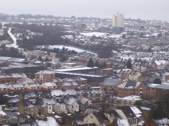 Chatham under snow. Looking from the Lines park. Compare scene with photo731353, in snow, Chatham almost looks attractive.